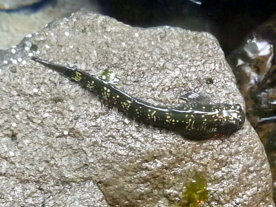 Leaping Blennies as seen at the Monterey Bay Aquarium.